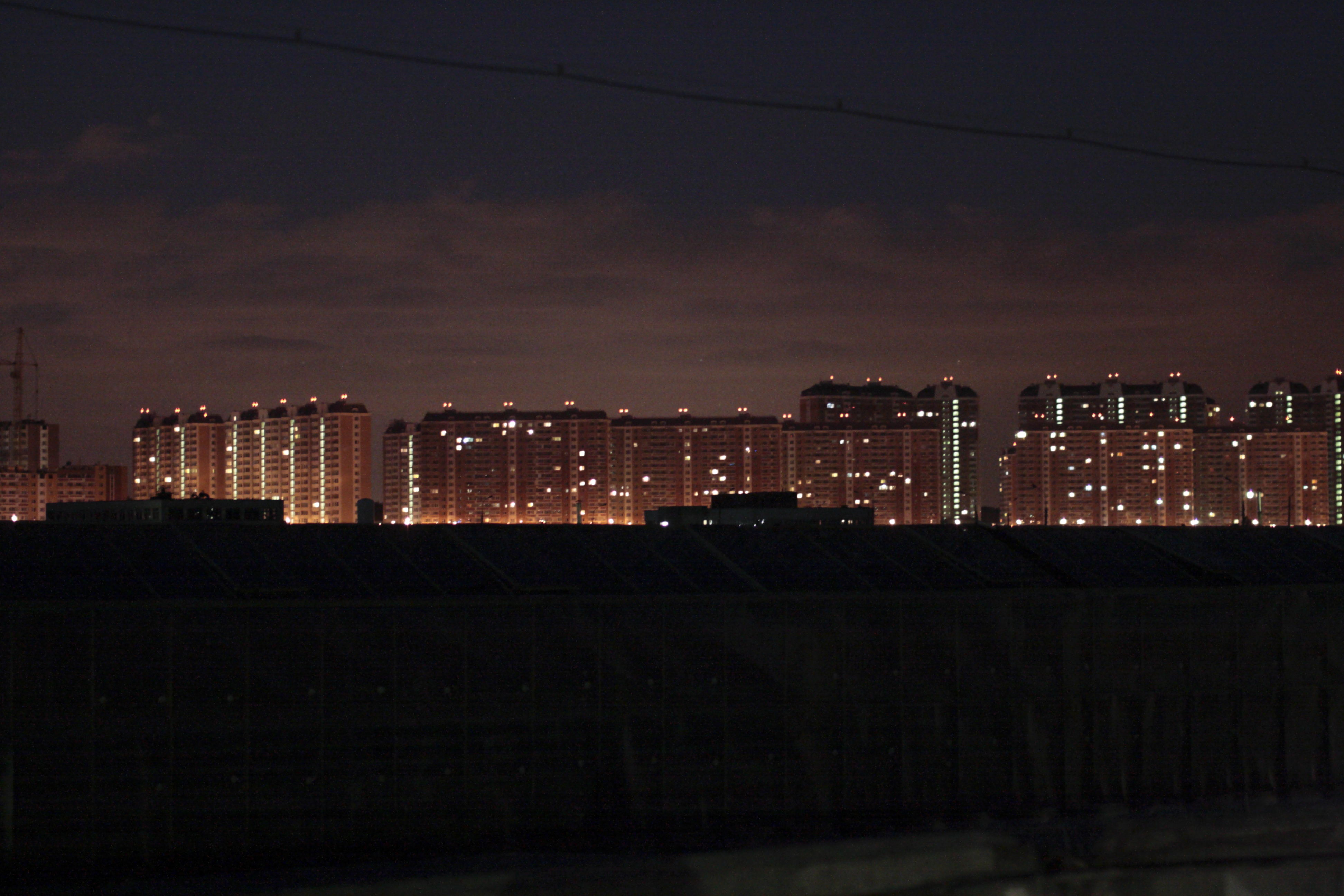 Moskovsky, housing estate #4 at night. Greenhouses on foreground.